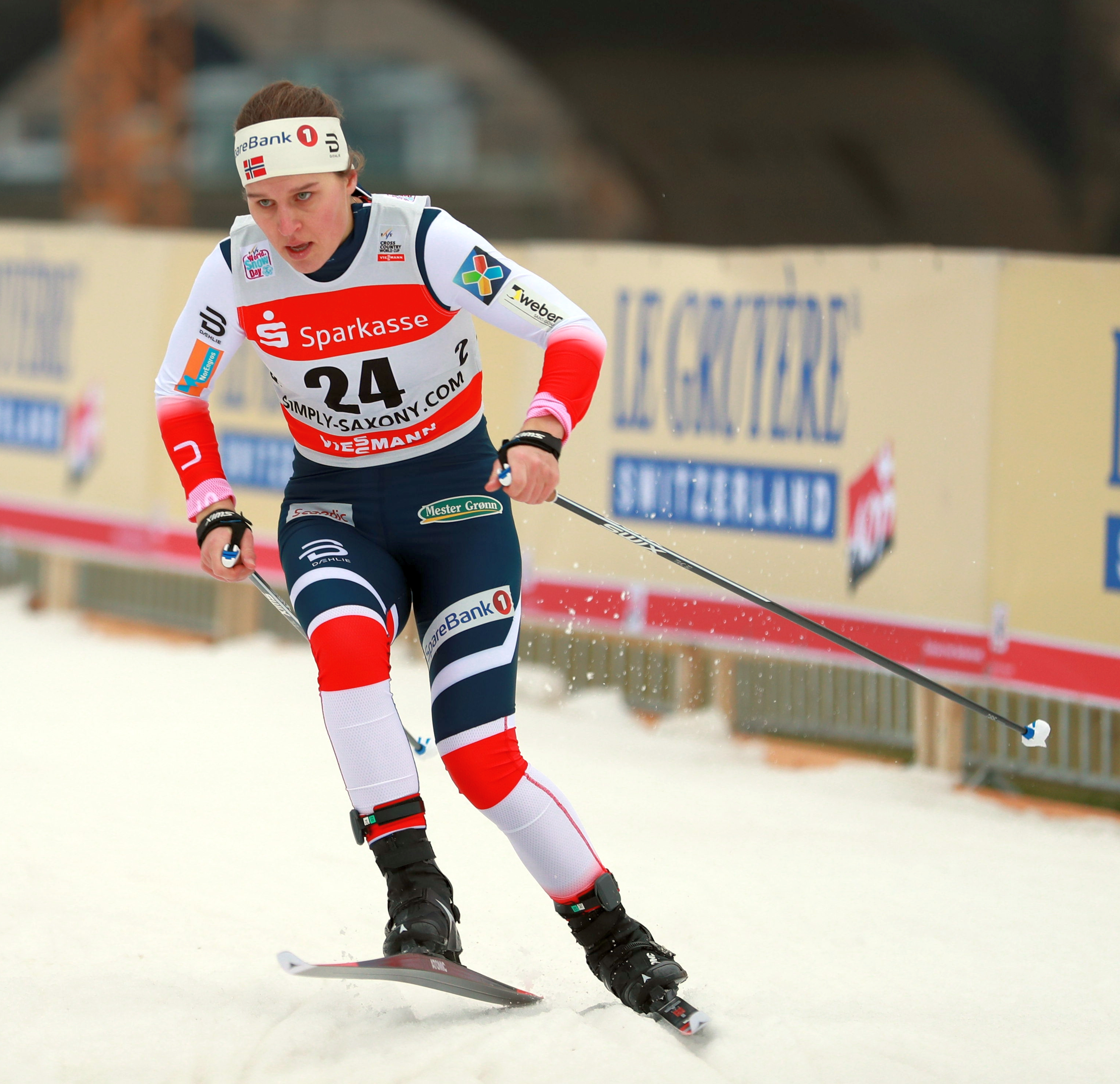 Womens Prolog at the FIS Cross-Country World Cup Dresden 2018: Lotta Udnes Weng